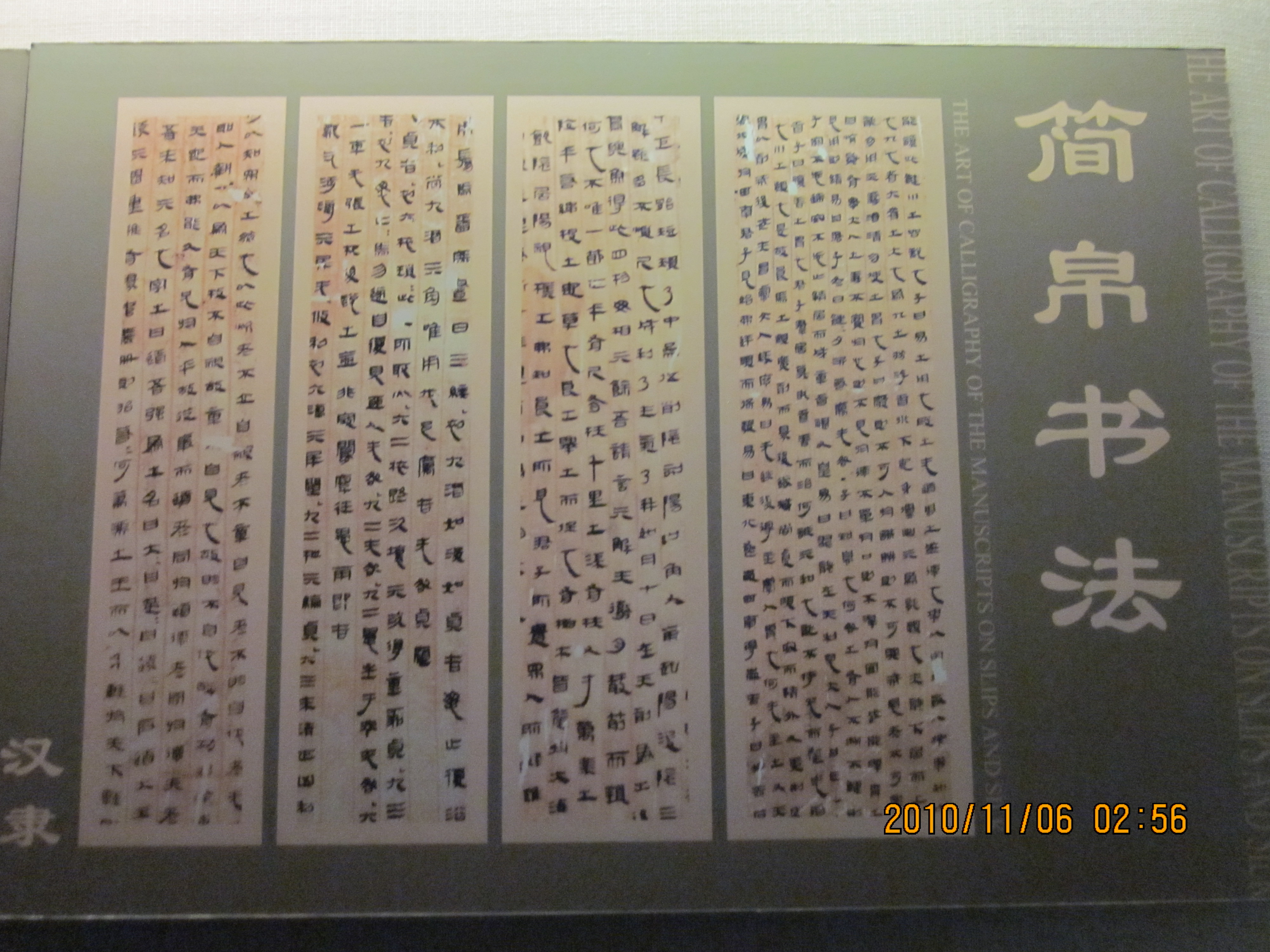 The Mawangdui Silk Texts (Chinese: 馬王堆帛書; pinyin: Mǎwángduī Bóshū) are texts of Chinese philosophical and medical works written on silk and found at Mawangdui in China in 1973.